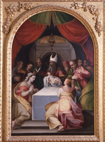 Presentation of Jesus at the Temple